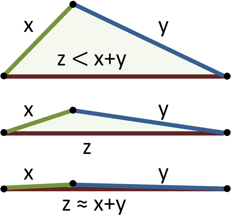 Sum of two sides of triangle exceeds third side in length